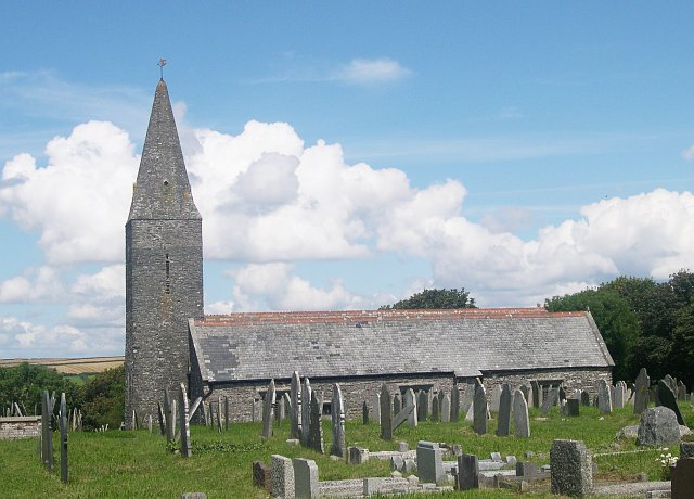 Rame Church. The church is situated between the tiny village of Rame and the headland of the Rame Peninsula. I understand that the church has no mains power and is lit by candlelight for services.